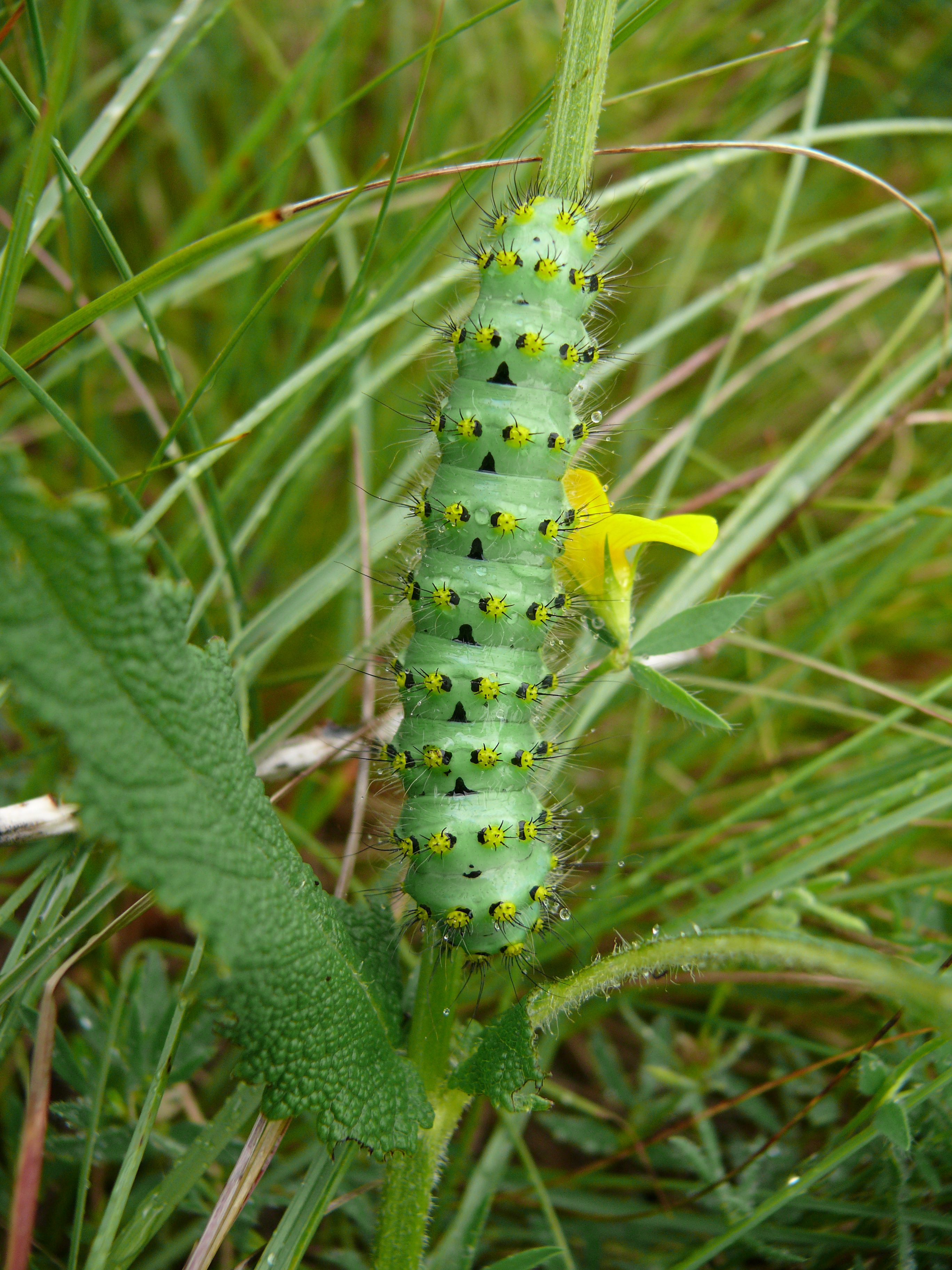 Grown-up caterpillar of Saturnia pavoniella